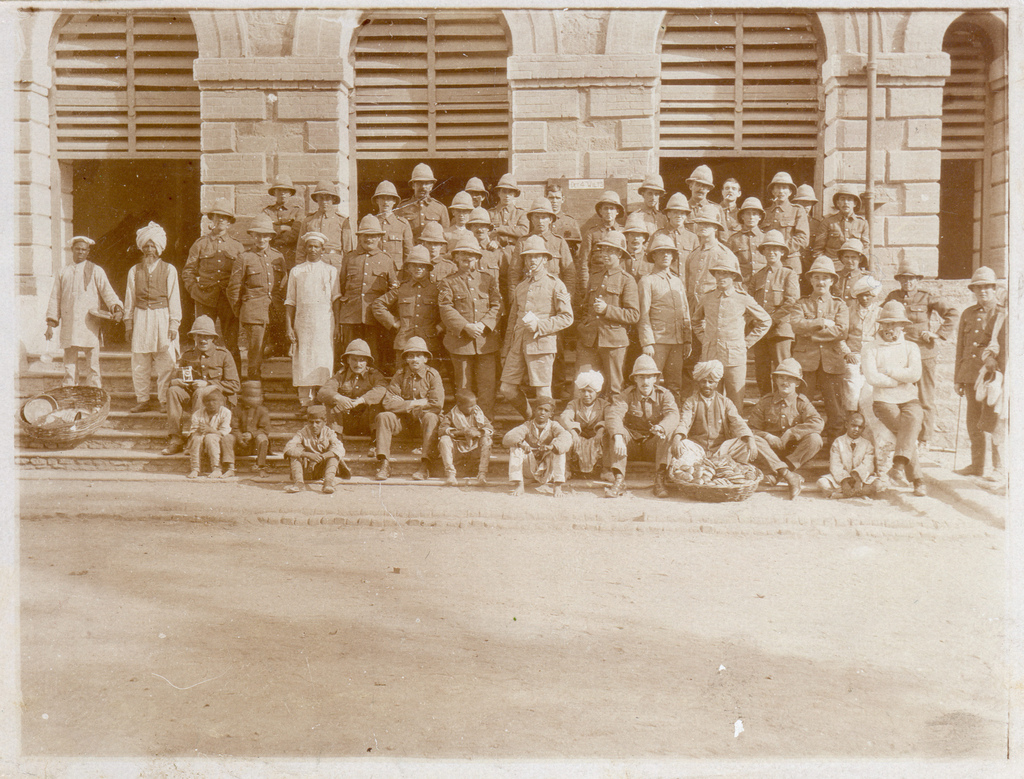 Members of the Wiltshire Regiment in Indian in 1916 posing with some locals. The men are from either the 1/4 or 2/4 battalions of the Wiltshire Regiment.